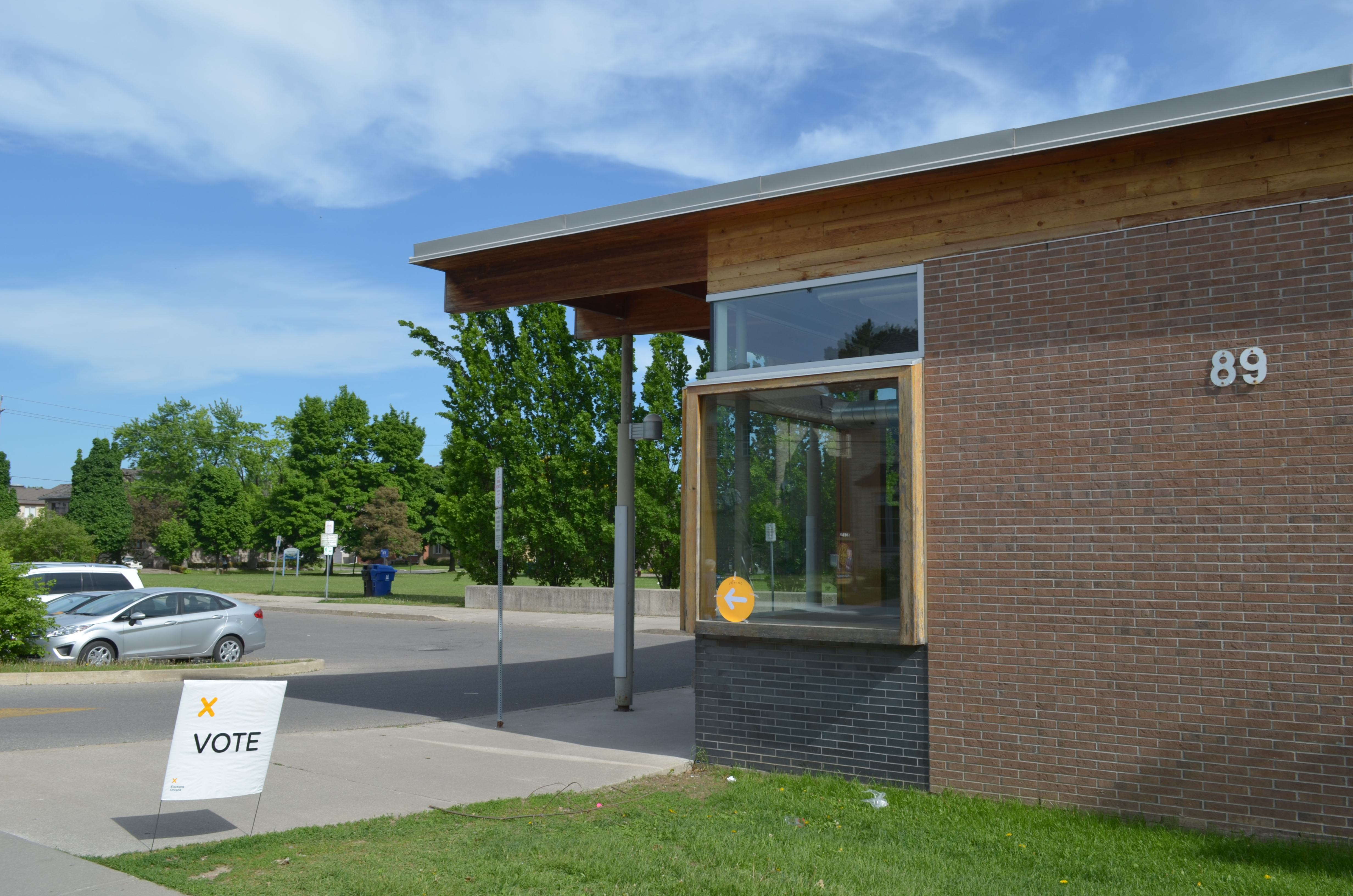 Mitchell Field Community Centre - 2014 Ontario election polling station